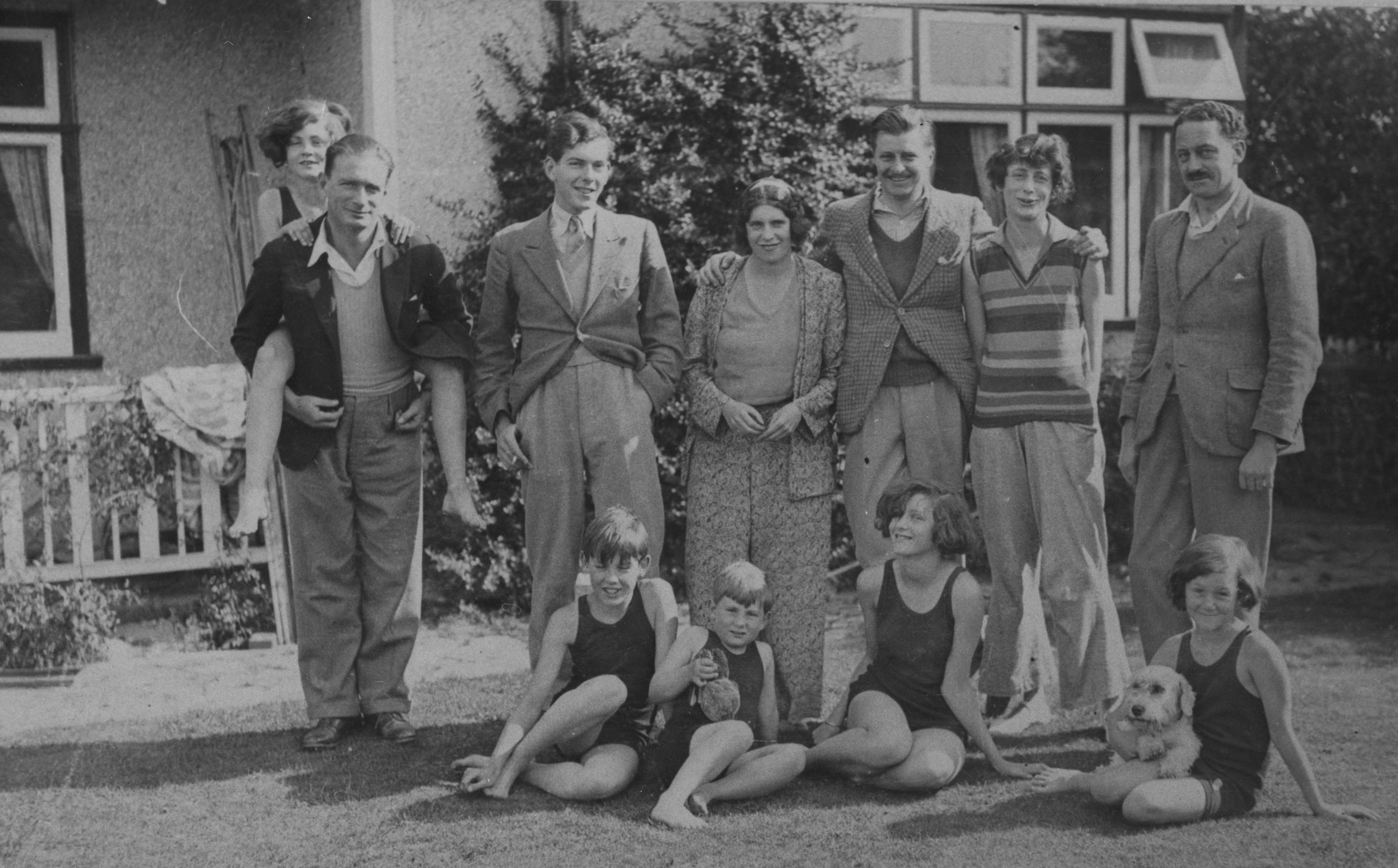 Ngaio Marsh with Rhodes and Plunket families on seaside holiday in Birchington, Kent. Nelly Rhodes is at centre, with Toppy Blundell Hawkes, Ngaio Marsh and Tahu Rhodes (son of Arthur Rhodes) to her right. In front are Denys, Teddy, Eileen and Pam Rhodes.